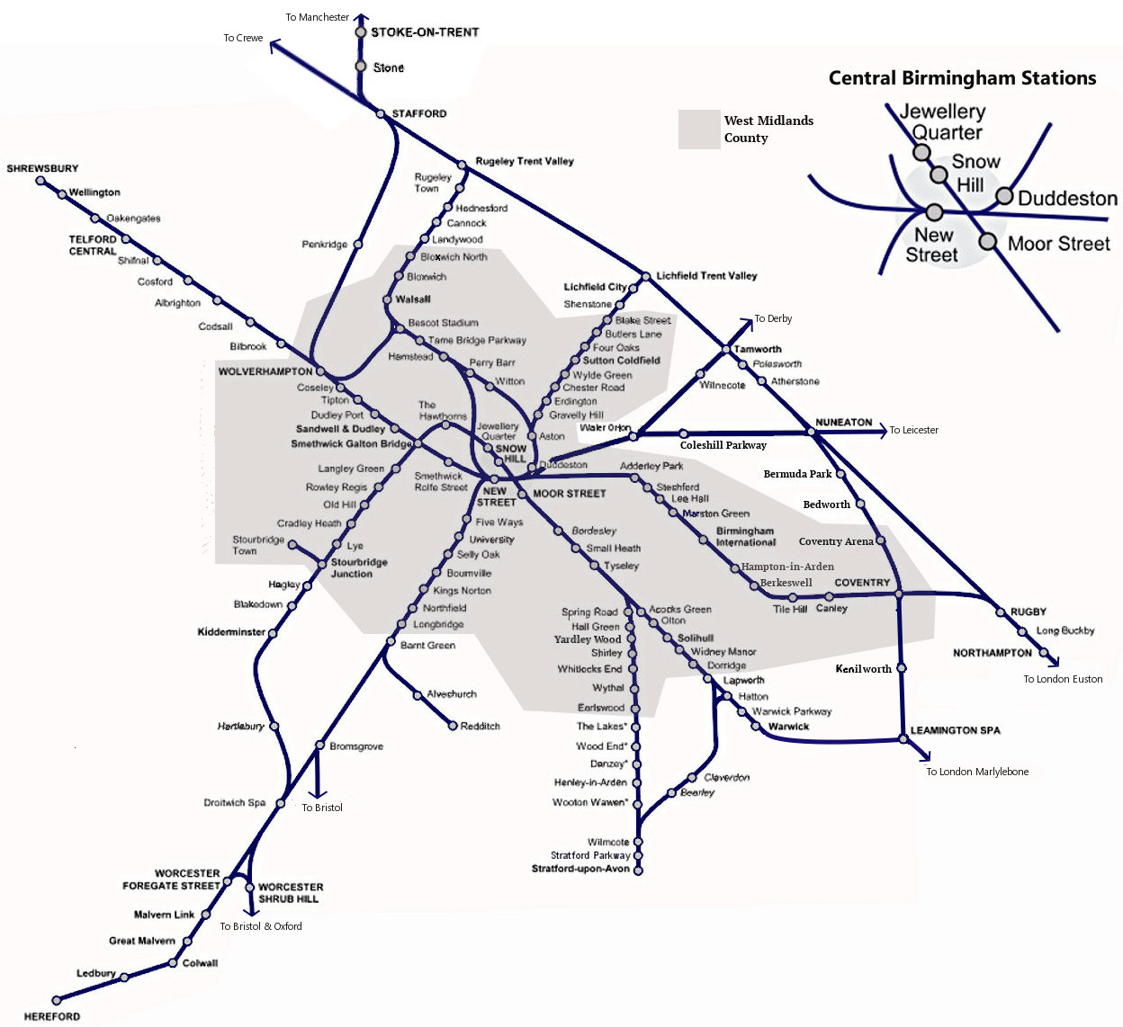 map of passenger rail network in Birmingham and West Midlands area. Adapted and modified from File:London Midland Rail Network Sagredo new.svg.